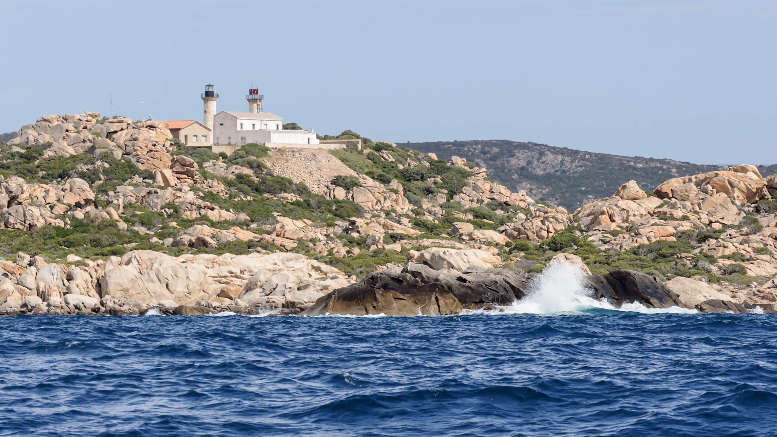 Senetosa lighthouse, Southern Corsica, France.